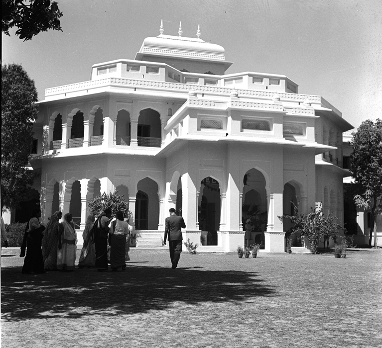 Photo Studio/20.3.46/OldE347,A12(d)A view of Maharani Gayatri Devi Girls High School, Jaipur. Photo Number:-37744